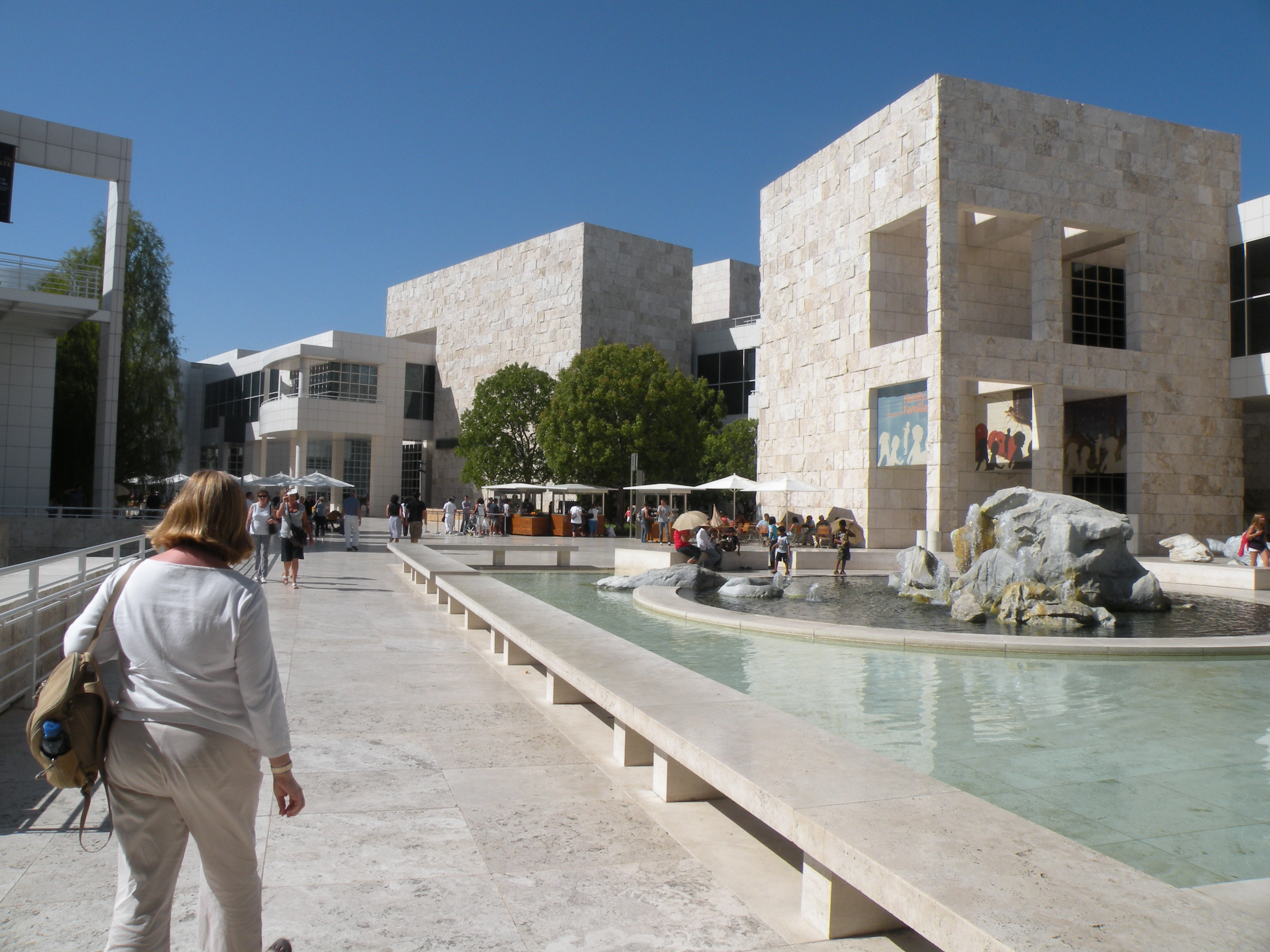 The inner courtyard of the Getty Center museum, Brentwood.